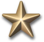 Illustration of a gold Award star ribbon device for military decorations